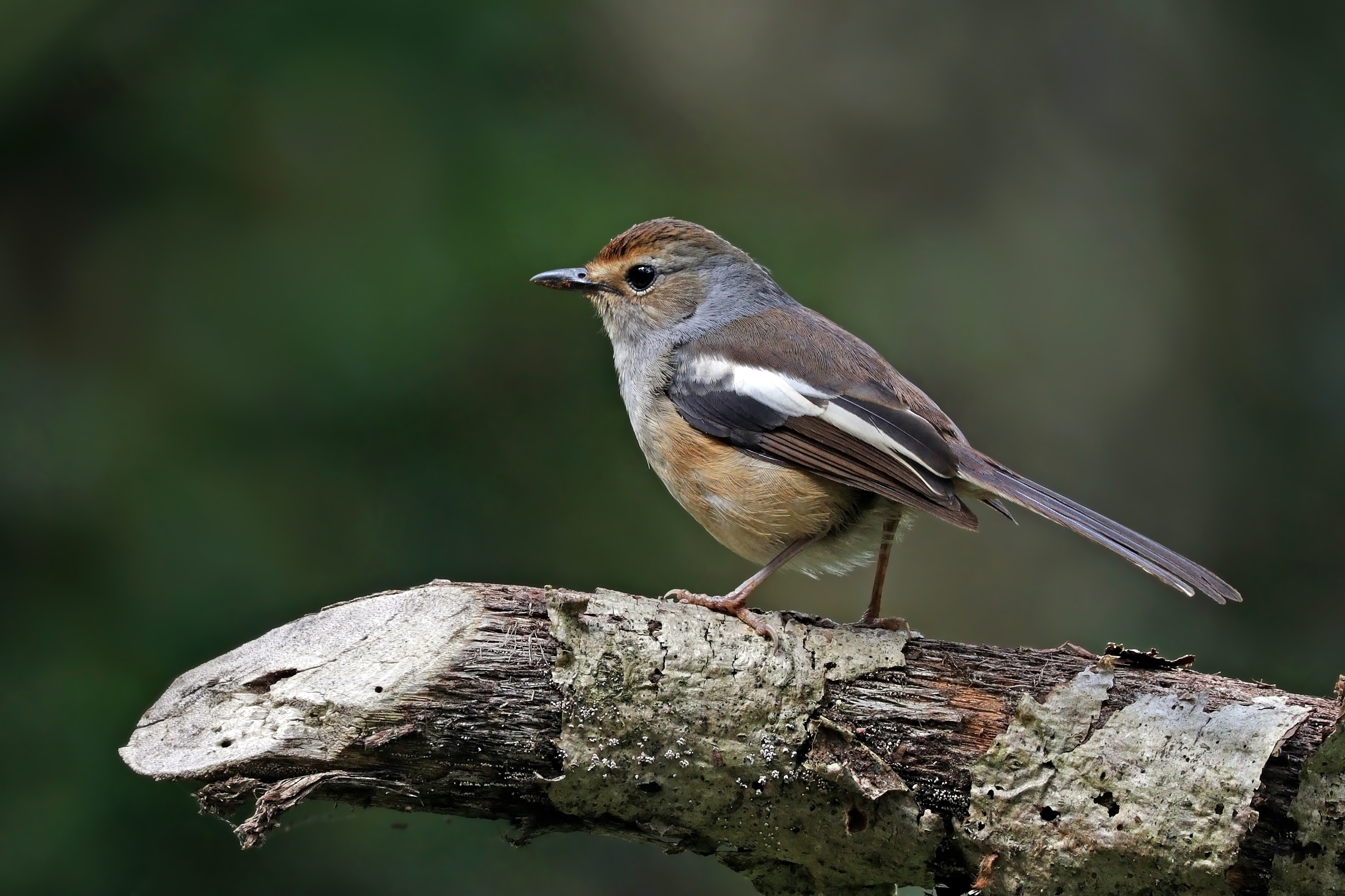 Madagascar magpie-robin (Copsychus albospecularis pica) female, Montagne d’Ambre National Park, Madagascar